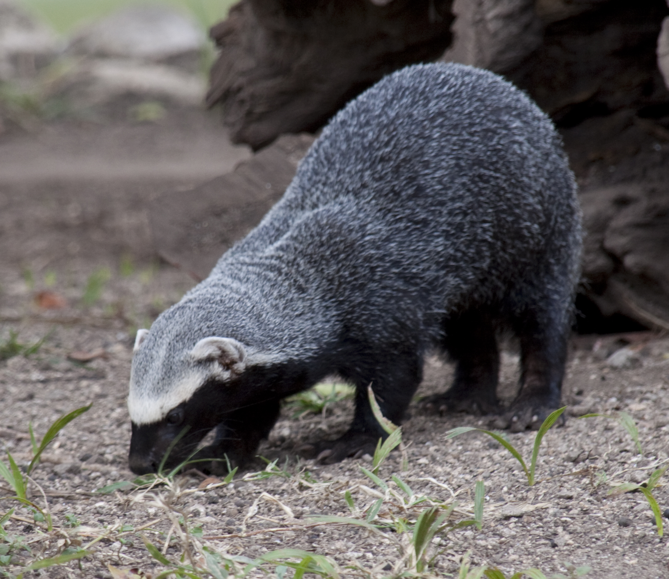 Greater Grison